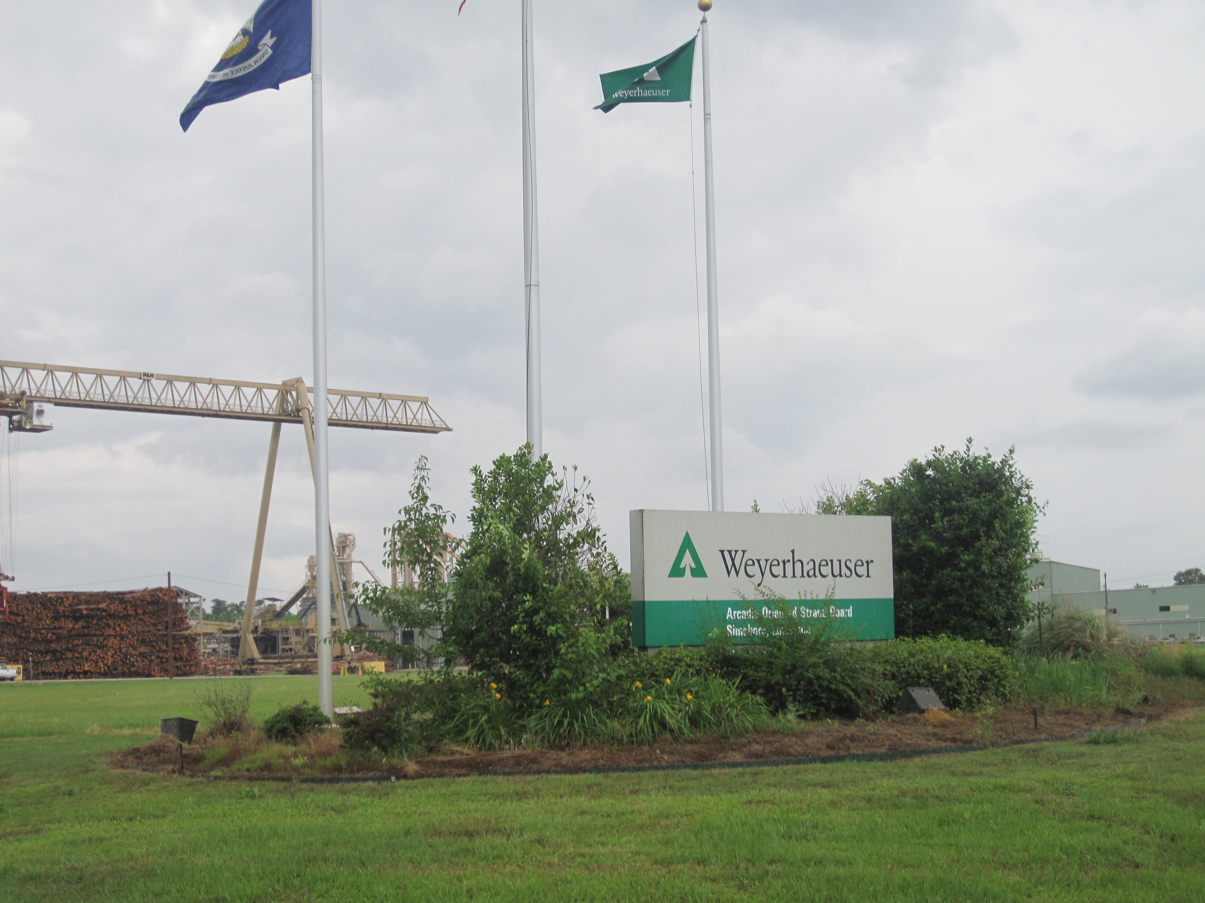 I took photo with Canon camera.